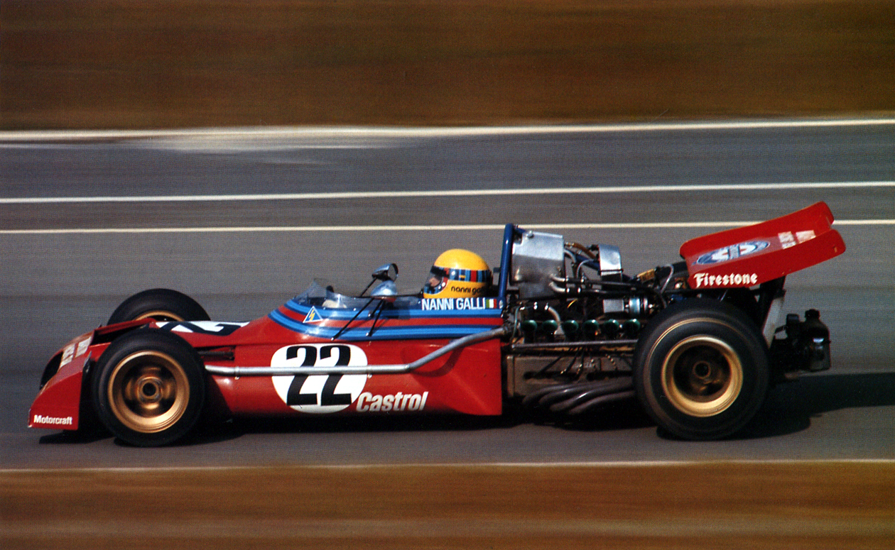 Nanni Galli on his Tecno PA-123